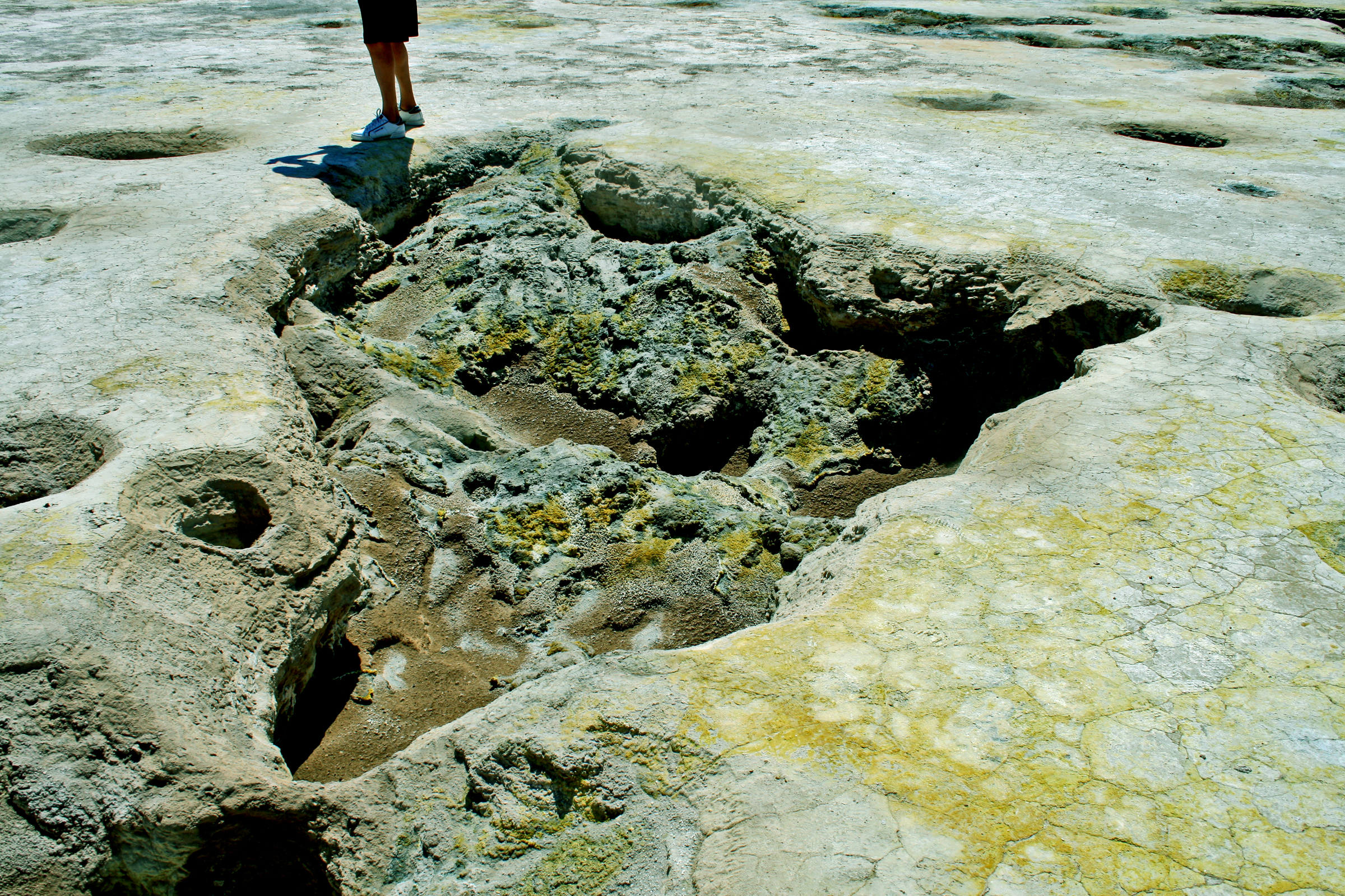 Mofette in crater of vulcano on Nisyros island (Greece)